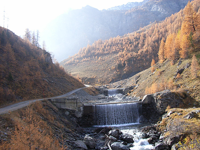 Sistemazione idraulica di un alveo montano con briglie